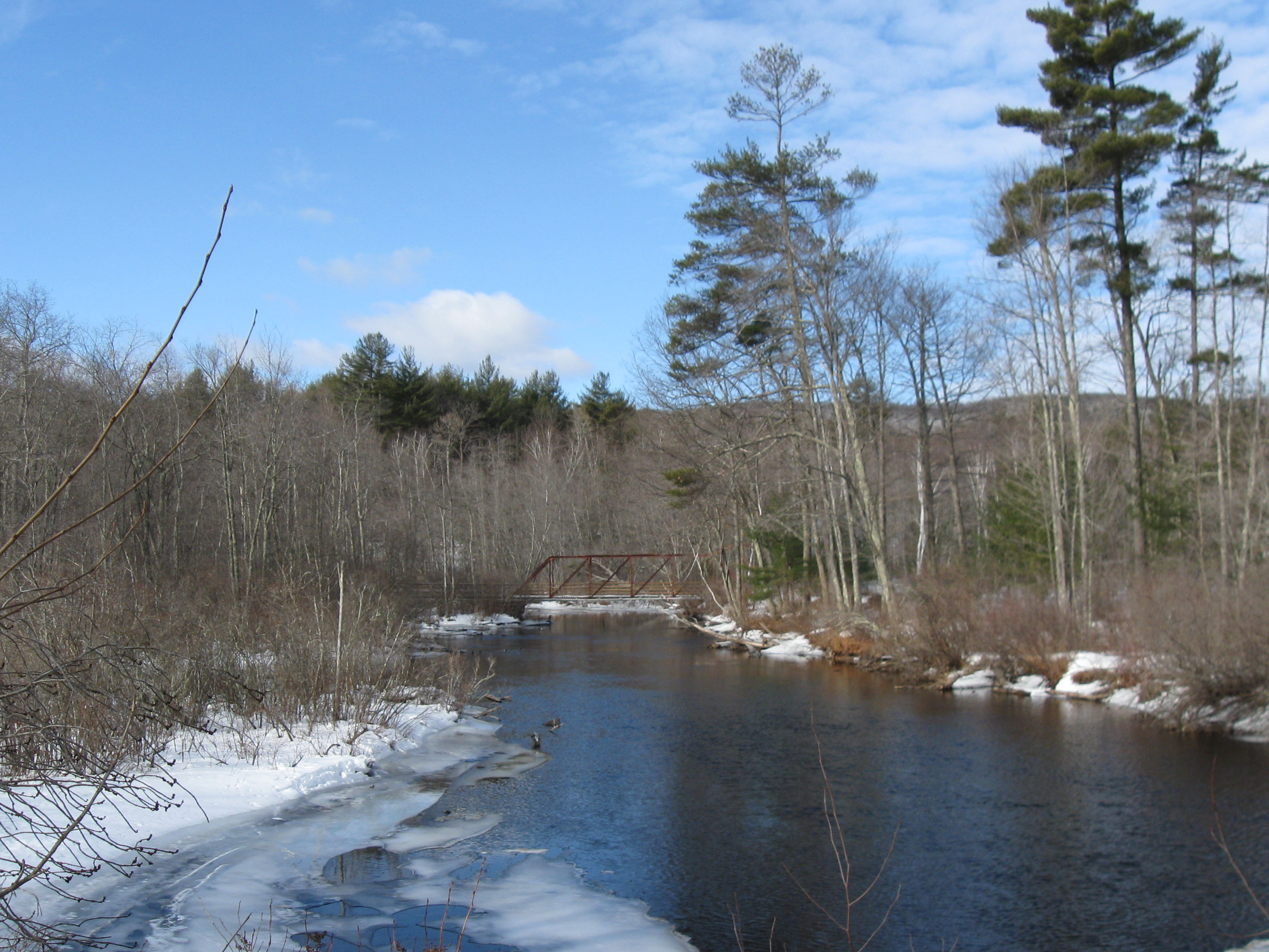 The Merrymeeting River in Alton, New Hampshire, near its mouth at Lake Winnipesaukee. Photo by Ken Gallager, February 15, 2010.